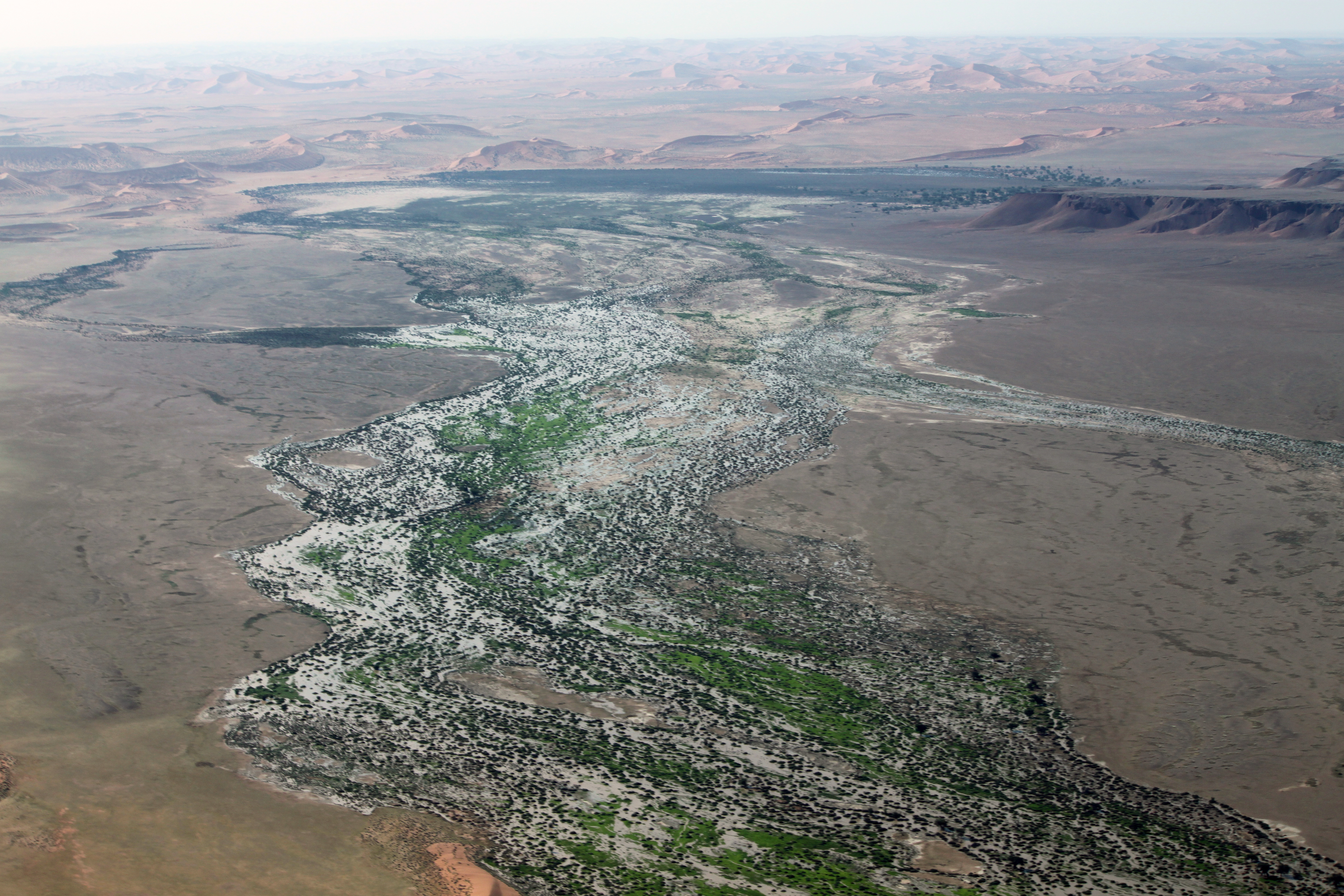 Tsondabvlei by air, Namibia